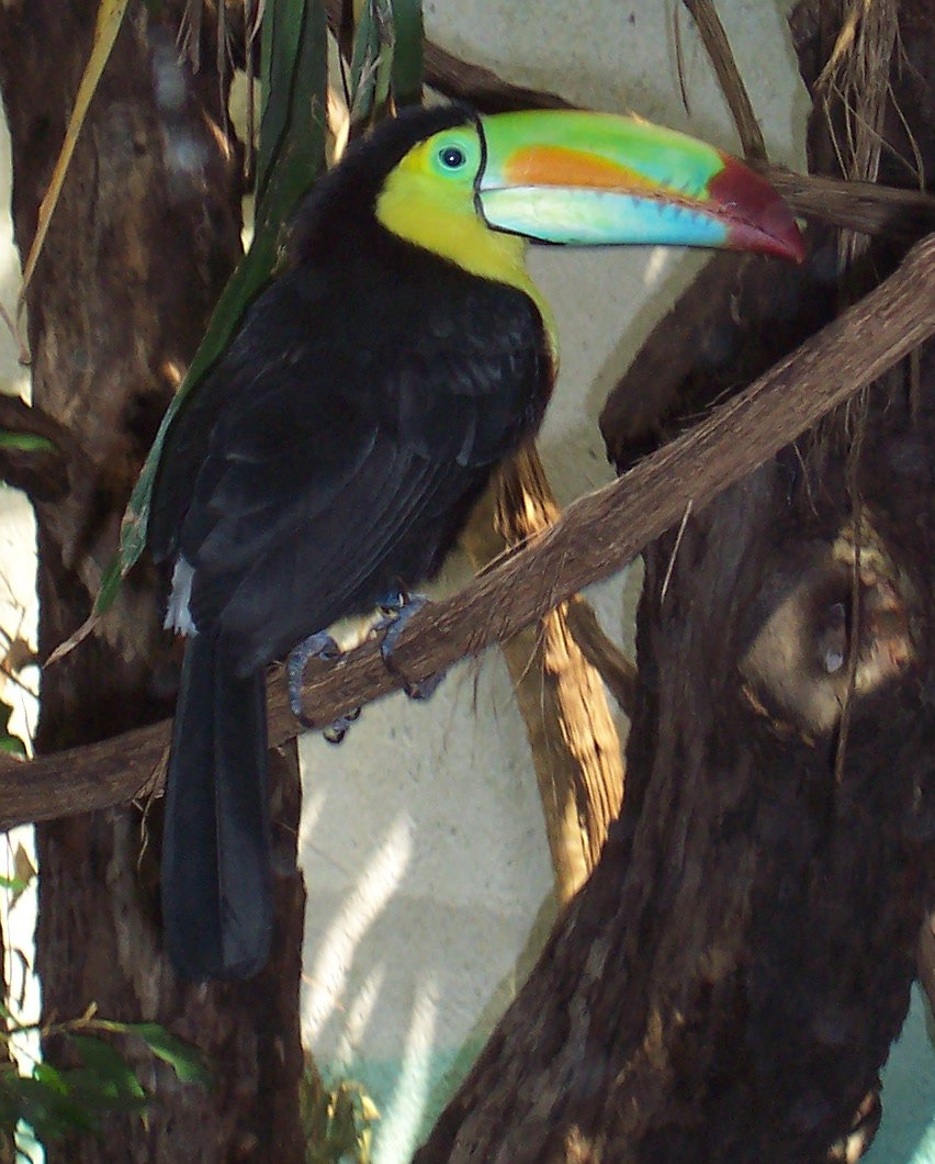 A Keel-billed Toucan photographed in Zürich Zoo.